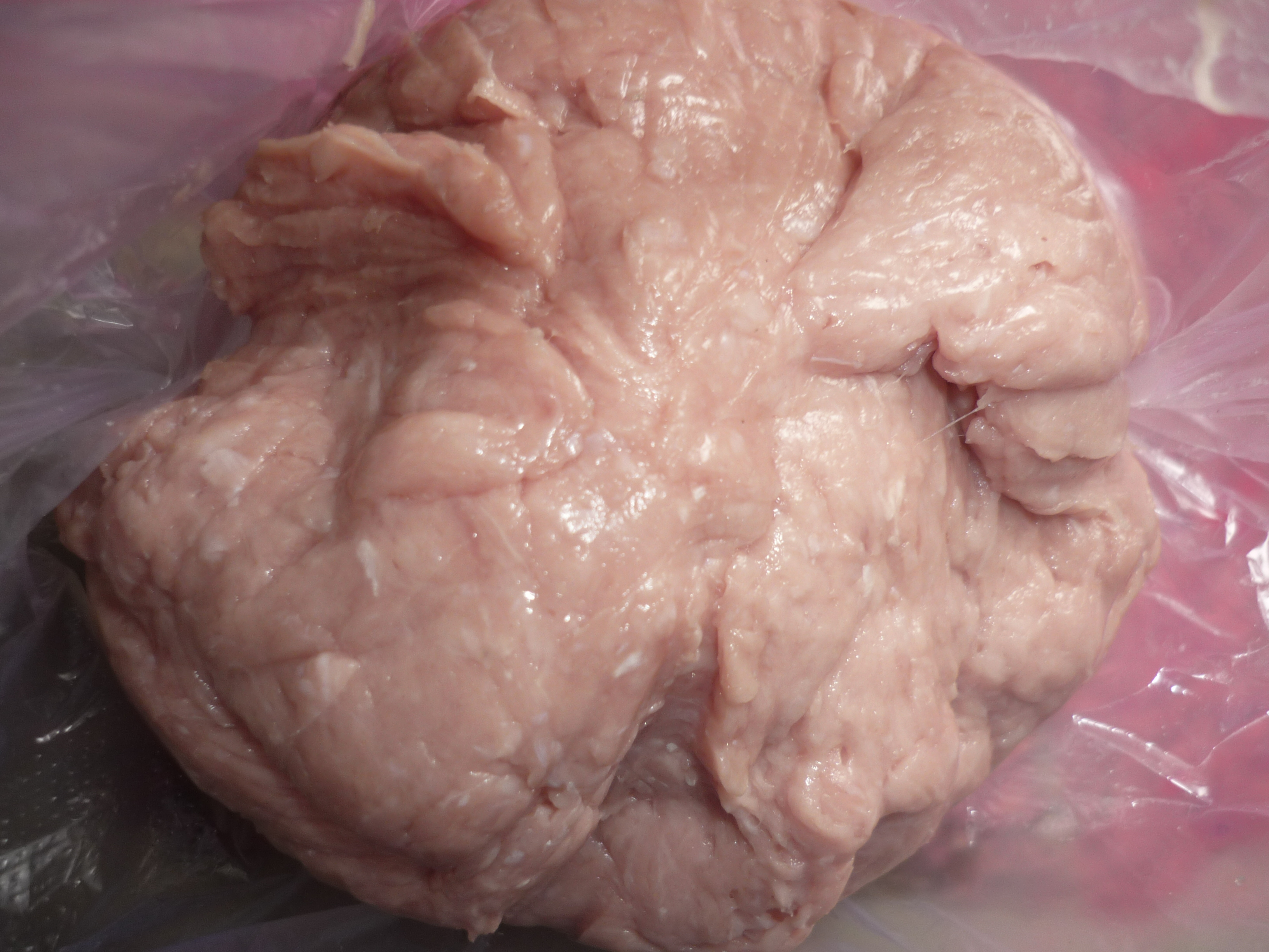 Giò sống, a Vietnamese ingredient